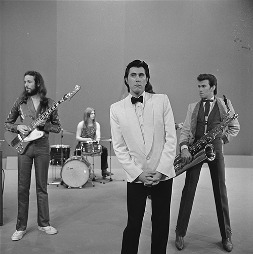 Roxy Music in AVRO's TopPop (Dutch television show) in 1973